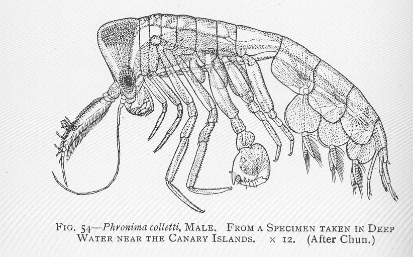 Phronima colletti, Male, from a specimen taken in deep water near the Canary Islands Subject: Phronima Tag: Invertebrates